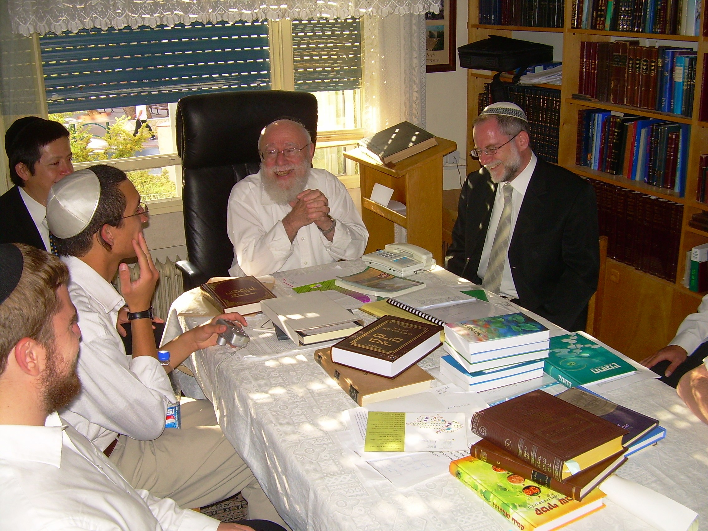 Rabbi Dov Lior, chief rabbi of Kiryat Arba and Hebron, Israel, during a meeting with yeshiva students from Machon Meir.